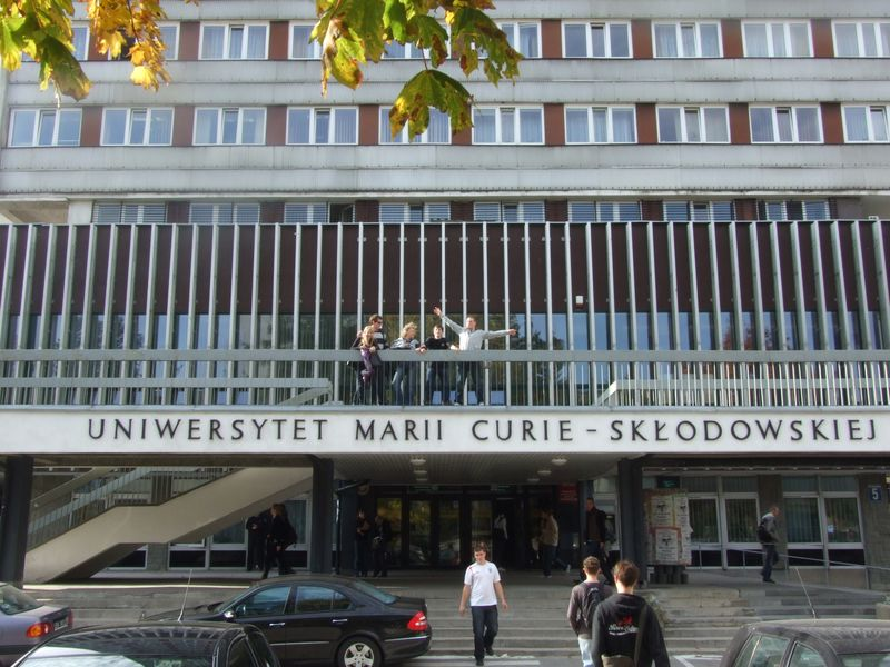 Rektorat UMCS